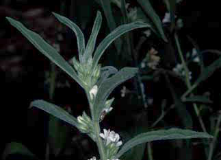 Myoporum velutinum